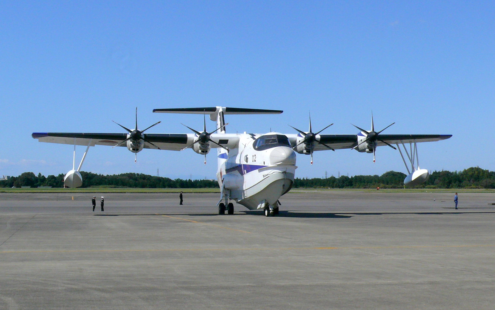 Japanese Self Defence force US-2 Flying boat Shimofusa Air Base. (Japan).